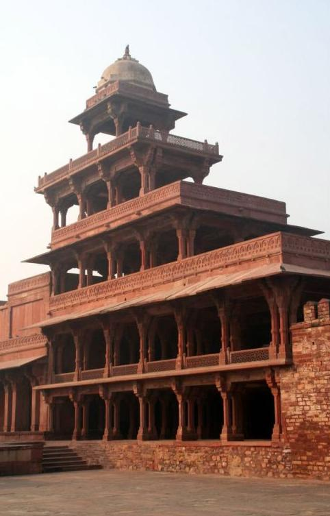 The Panch Mahal in Fatehpur Sikri, near Agra, India. (Photo taken by Isewell)